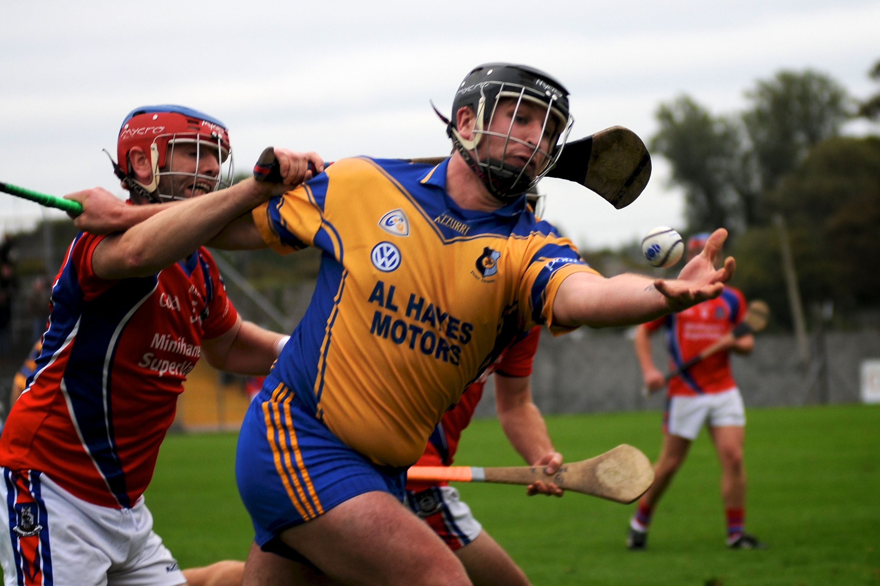 Portumna's Kevin Hayes fends off St Thomas' Enda Tannion in the 2013 Galway Senior Hurling Championship semi final in Athenry